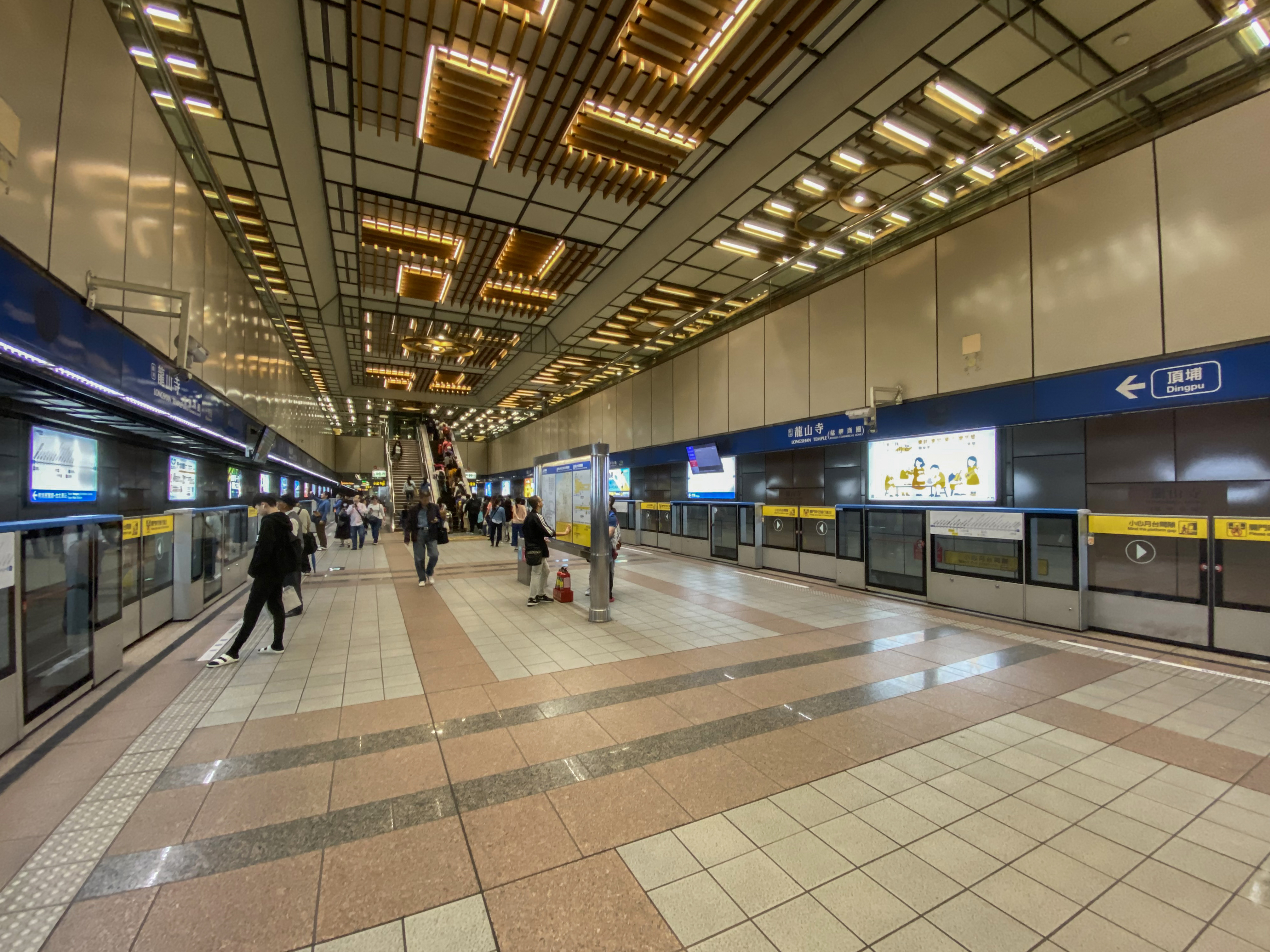 Longshan Temple Station